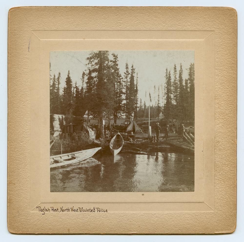 Title: Tagish Post, North West Mounted Police Creator: Unknown Date: ca. 1896-1899 Part Of: Place: Yukon Territory, Canada Physical Description: 1 photographic print: gelatin silver; 8.5 x 8.5 cm. on 12.5 x 12.5 cm. mount File: ag1981_0005_28r_tagish_opt.jpg Rights: Please cite DeGolyer Library, Southern Methodist University when using this file. A high-resolution version of this file may be obtained for a fee. For details see the web page. For other information, For more information, View U.S. West: Photographs, Manuscripts, and Imprints